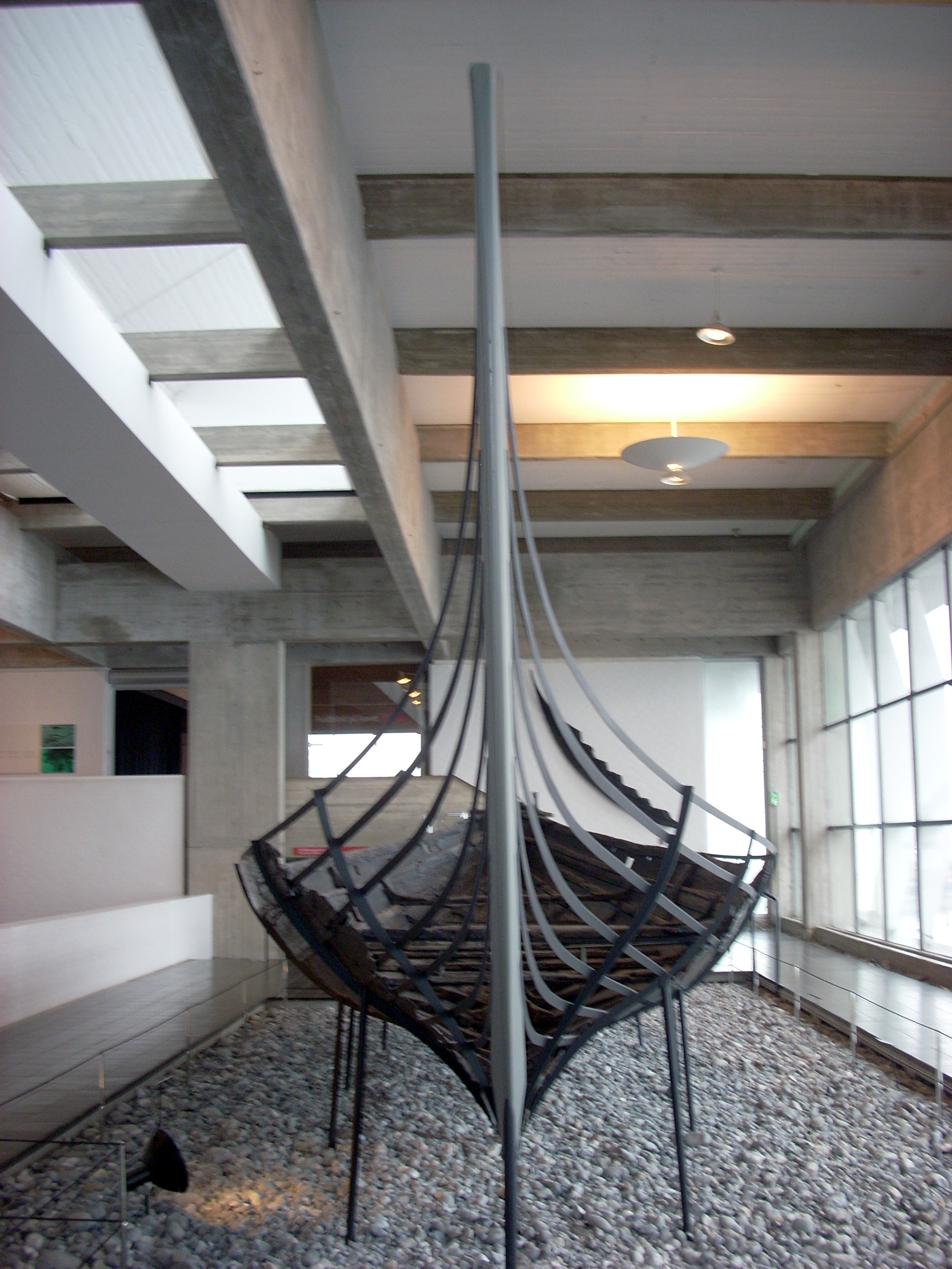 Remains of a Viking ship at the Viking Ship Museum in Roskilde, Denmark.